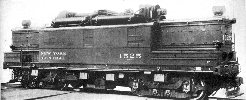 Builders photo of New York Central three-power boxcab prototype locomotive with road number 1525.